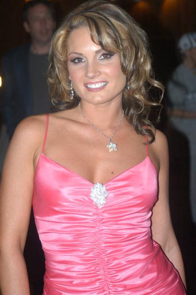 Flower Tucci at the FOXE Awards on February 19, 2006